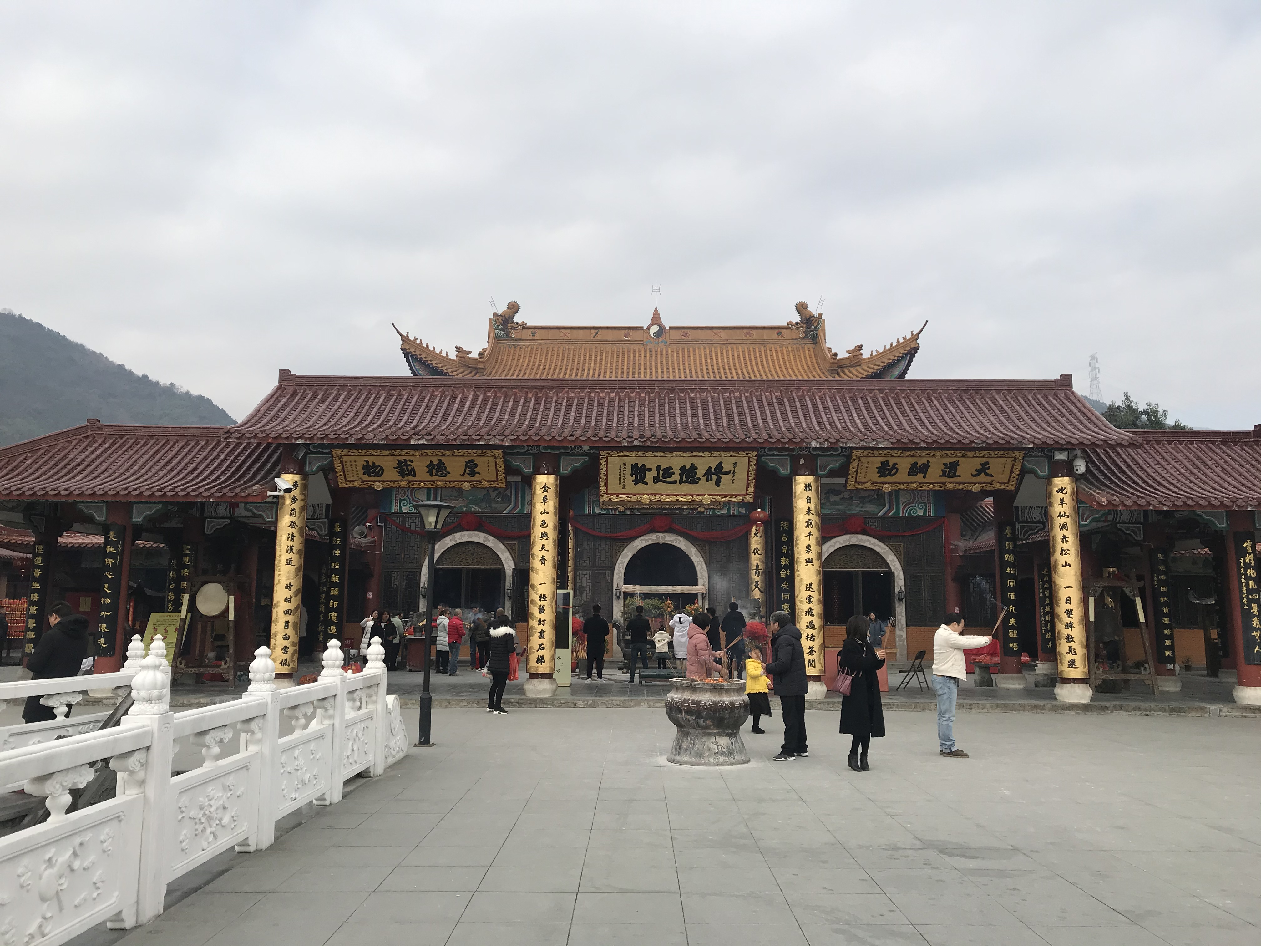 202001 Main Hall of Chisong Huang Daxian Palace